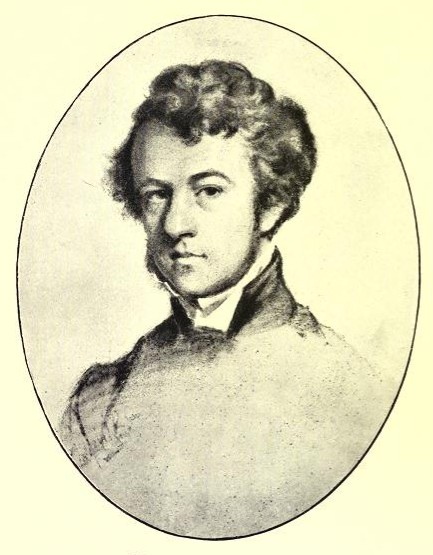 Portrait of George Rundle Prynne (1818–1903), English cleric.